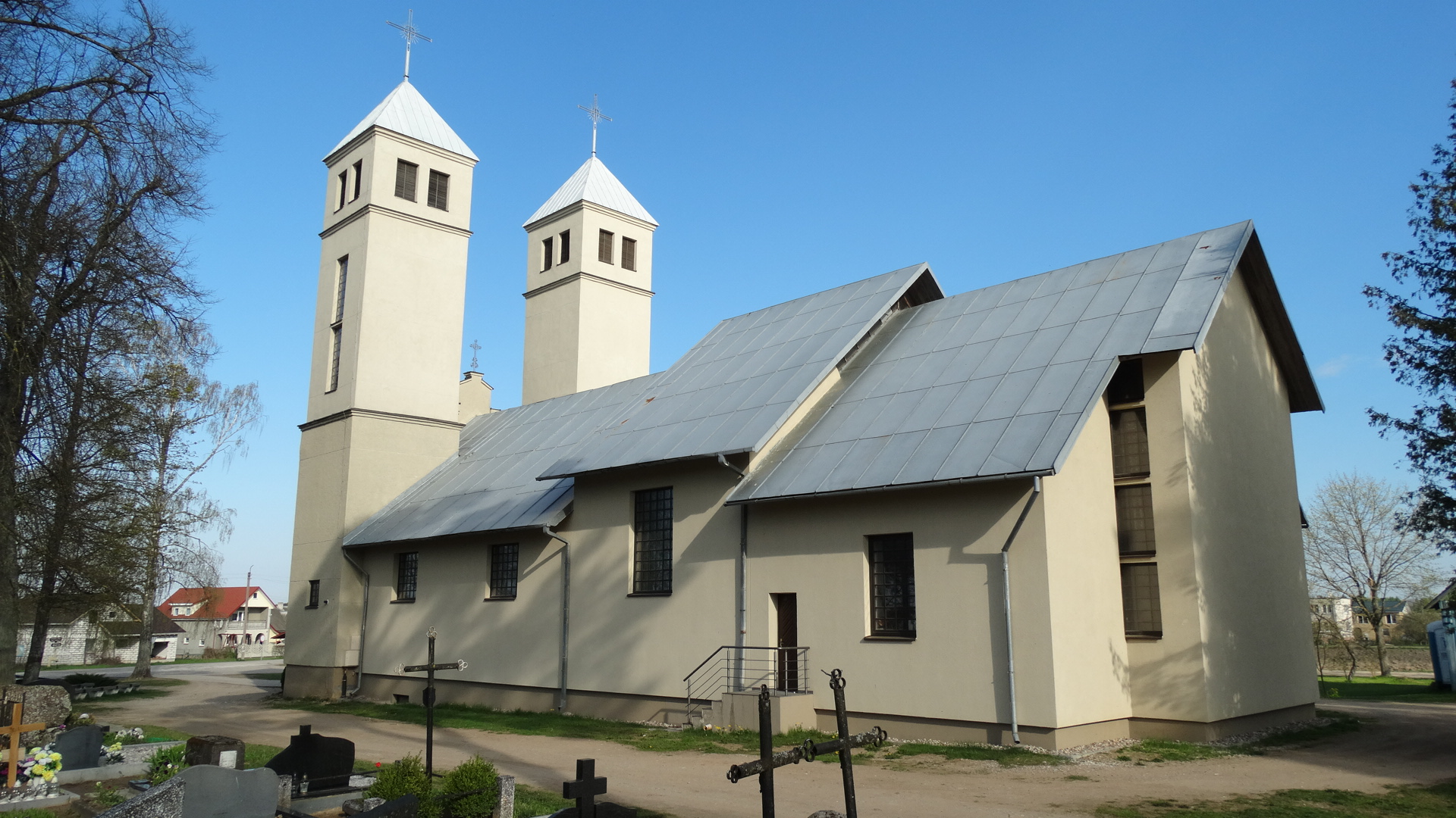 Catholic Church, Šalčininkai, Lithuania